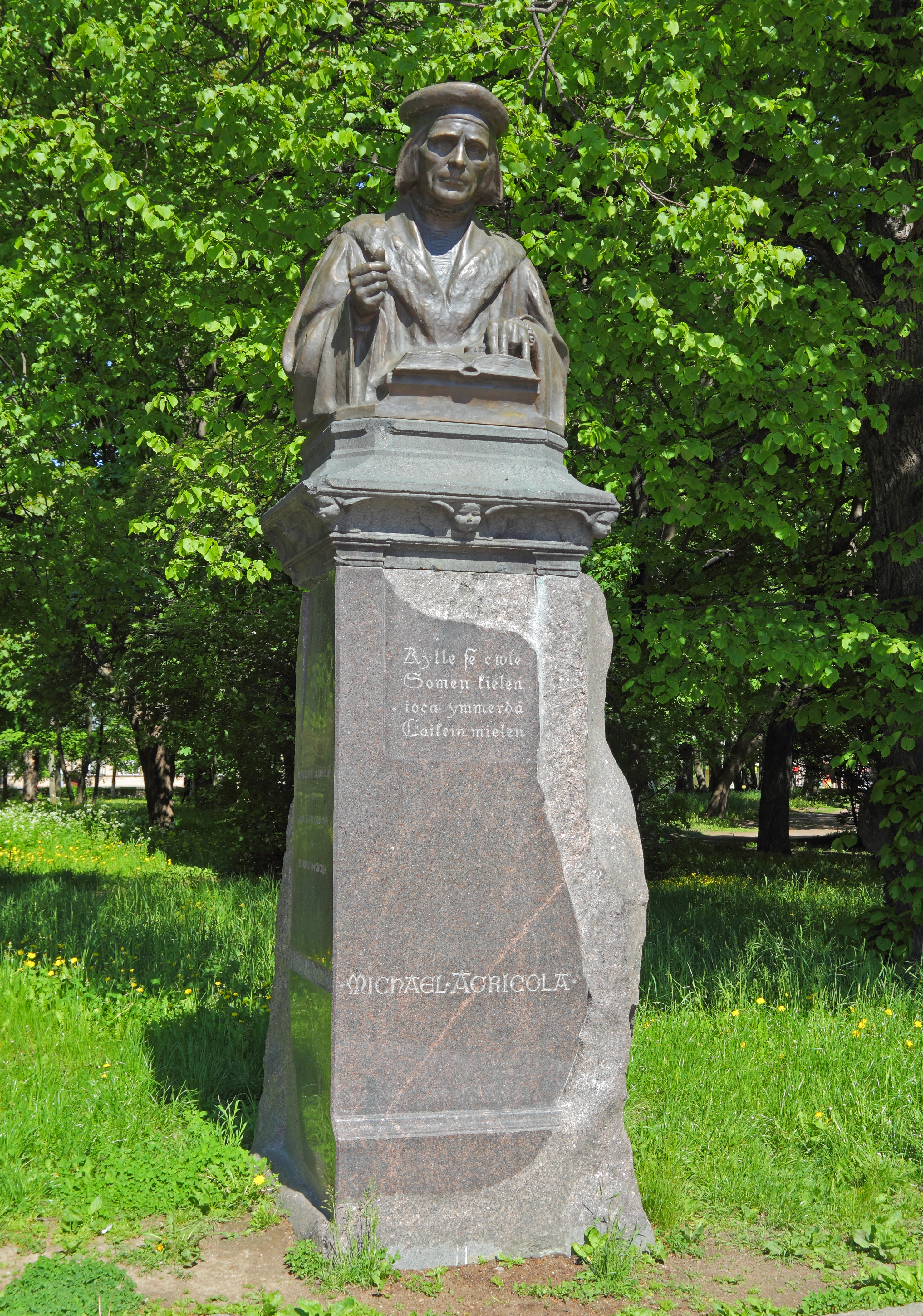 Vyborg (former Viipuri), Leningrad Oblast, Russia. Monument to Mikael Agricola (created in 1908 by Emil Wikström, restored in 2009).